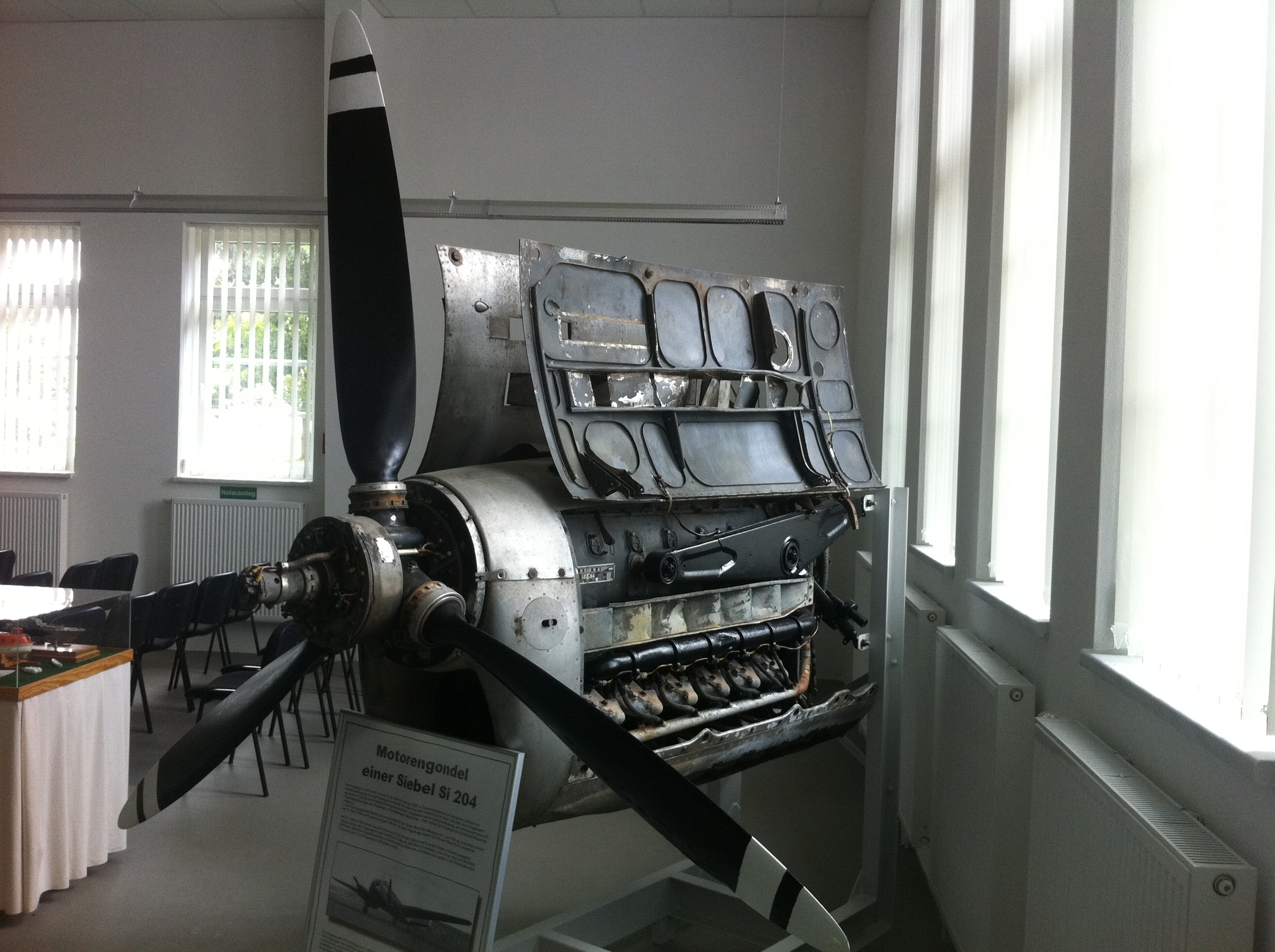 Motorgondel einer NC.701 von SNCAN, Weiterbau einer Siebel 204 mit dreiblättrigem Propeller. Standort: Luftfahrtmuseum Rechlin